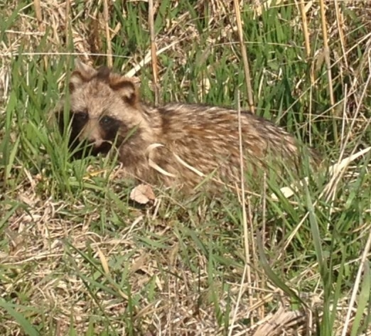 Photo of Korean raccoon dog